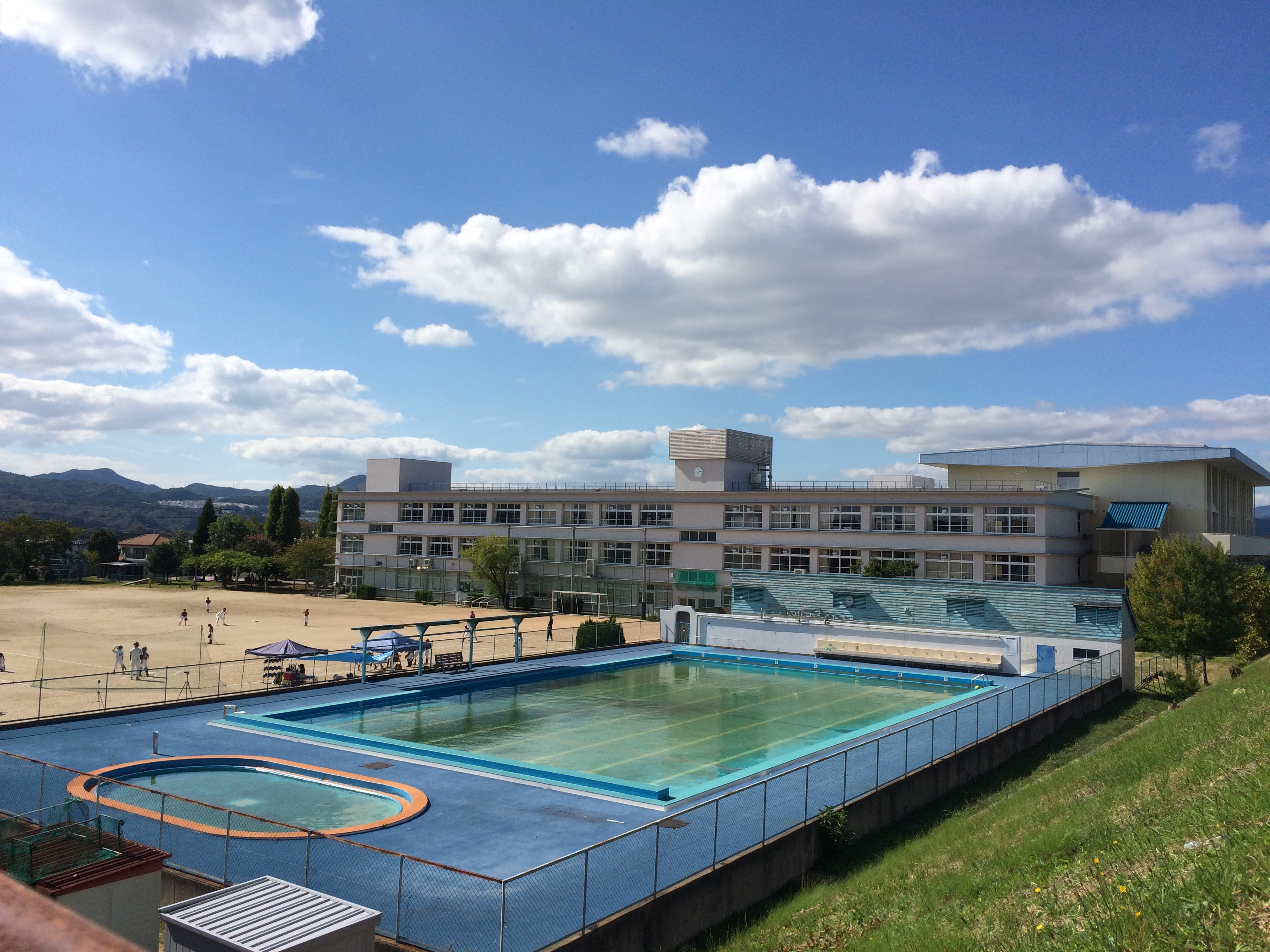 Youmei Primary School in Kawanishi, Hyogo Pref., Japan